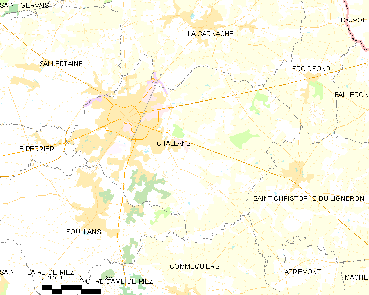 Map of French municipality Challans